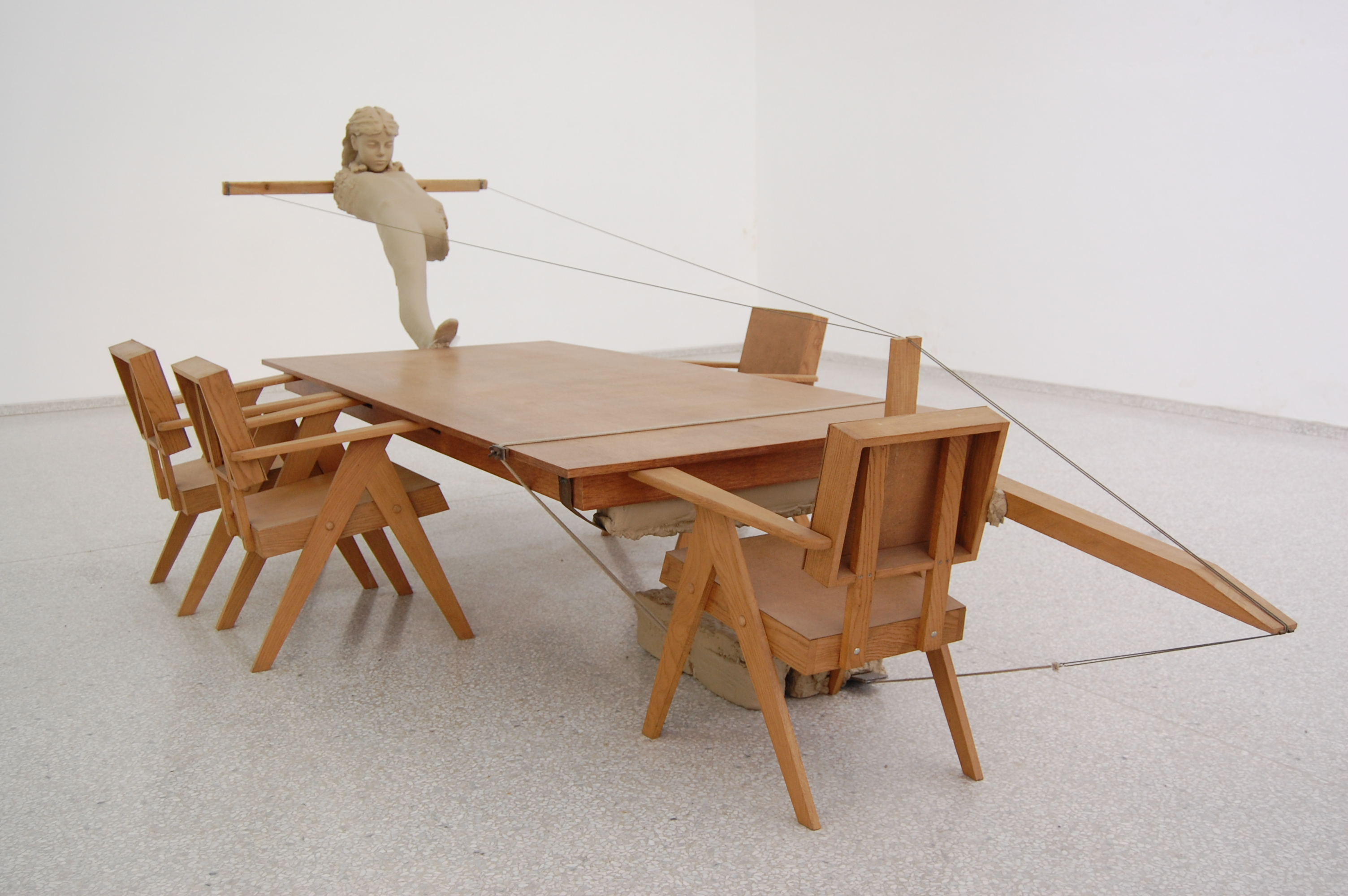 Mark Manders, 2013